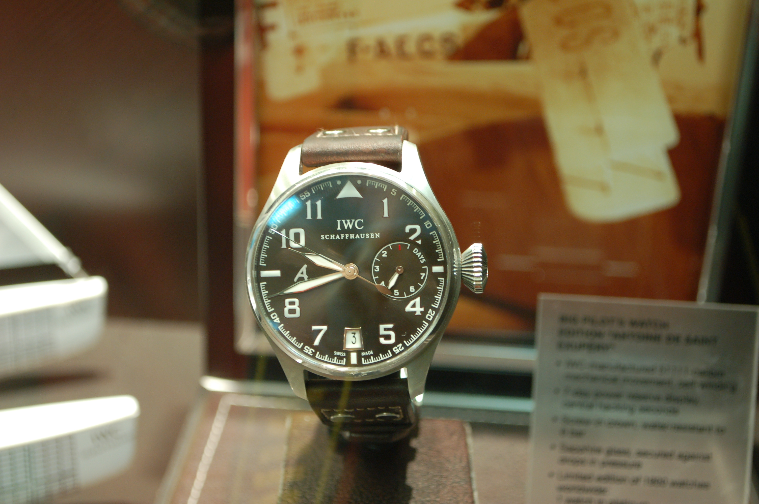 The IWC Big Pilot watch. This version is the limited Antoine De Saint Exupery edition of 1900 watches in total.